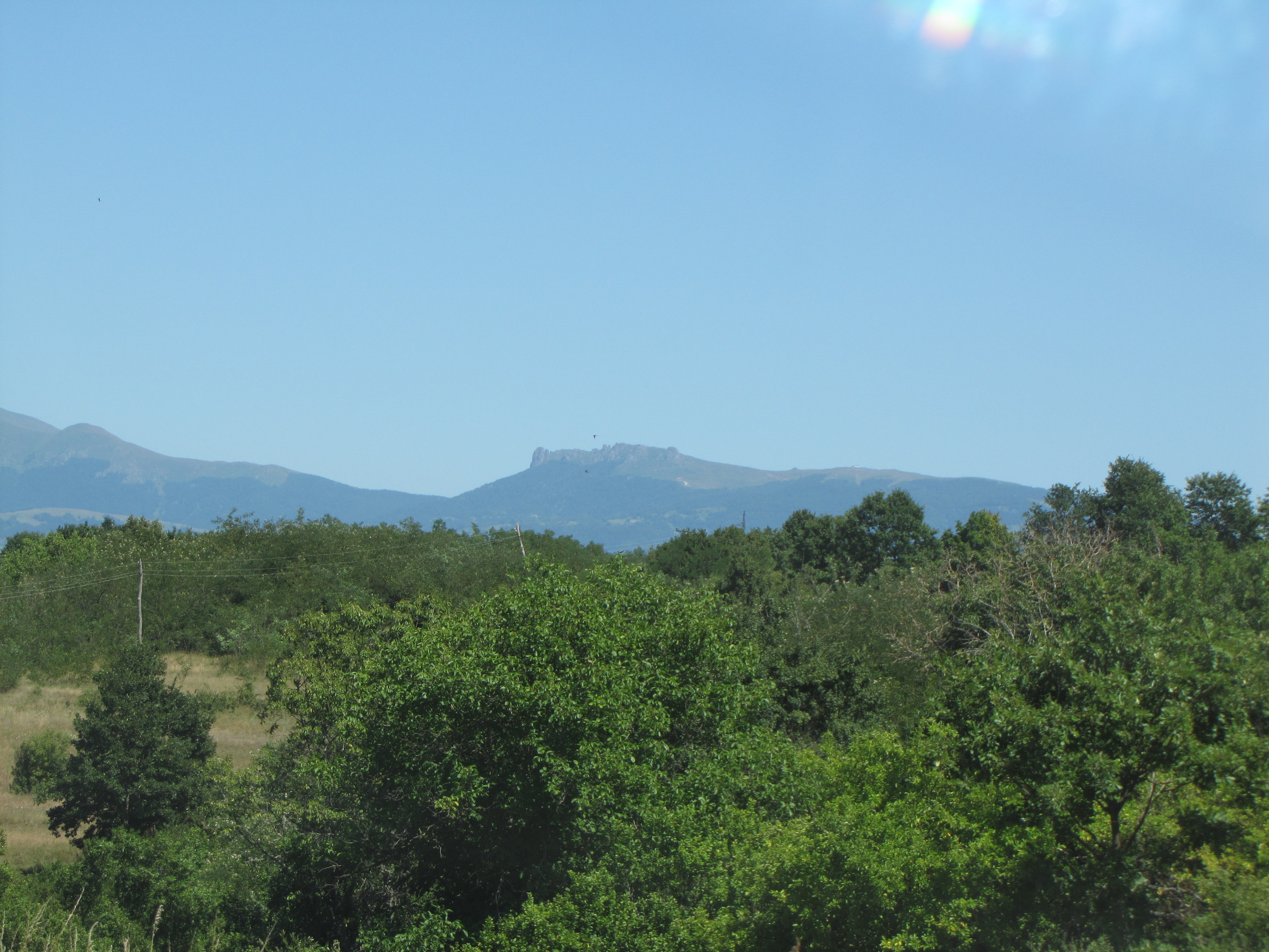 View on Stara planina (Midžor). Српски (ћирилица): Поглед на Стару планину (Миџор).